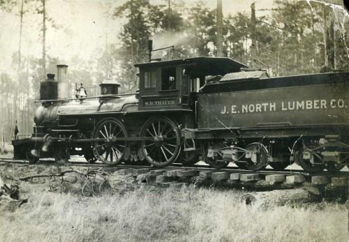 Locomotive of the J.E. North Lumber Company, Bond, Mississippi, USA